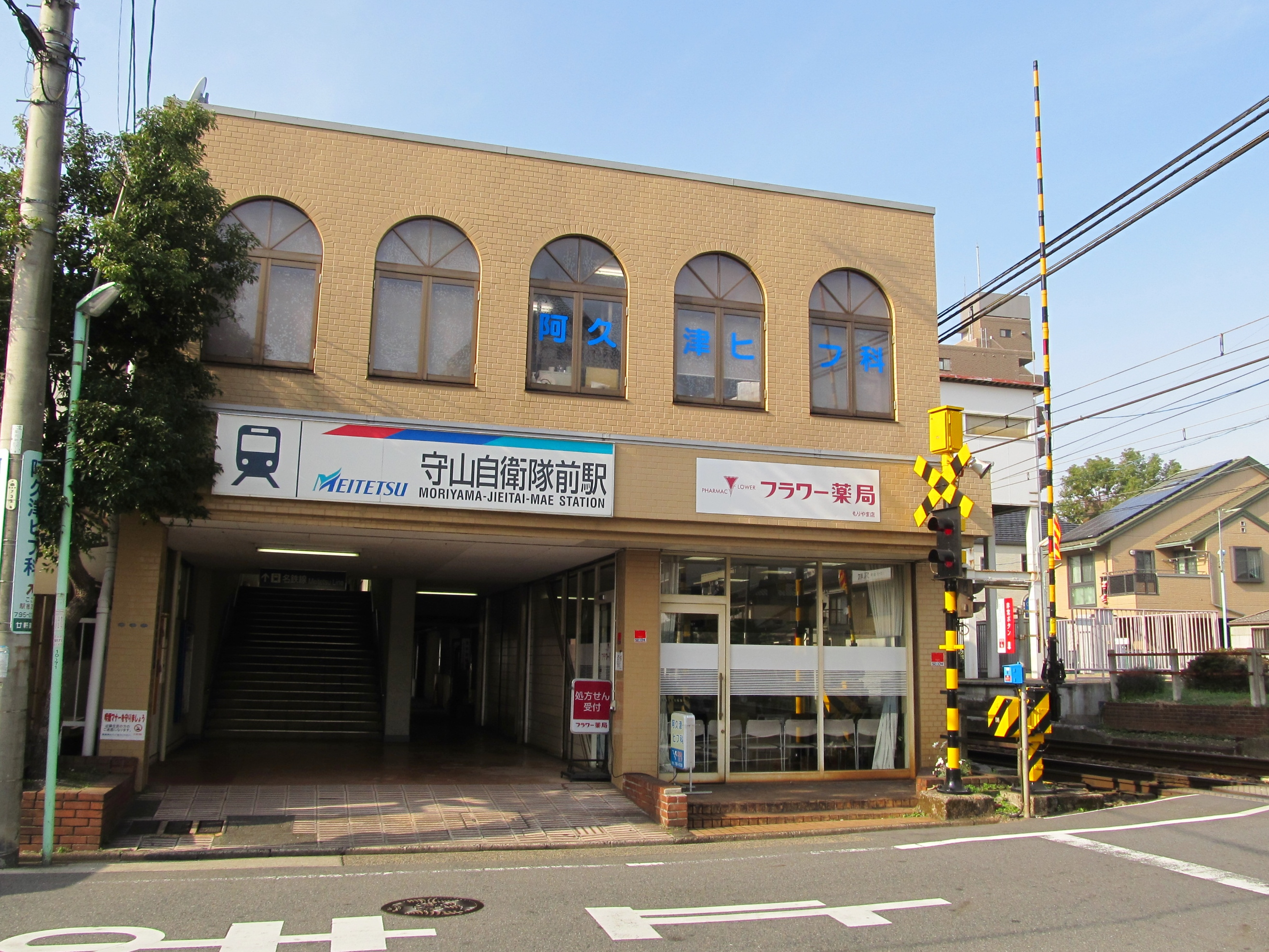 Nagoya Railroad Seto Line Moriyama-jieitai-mae Station Building